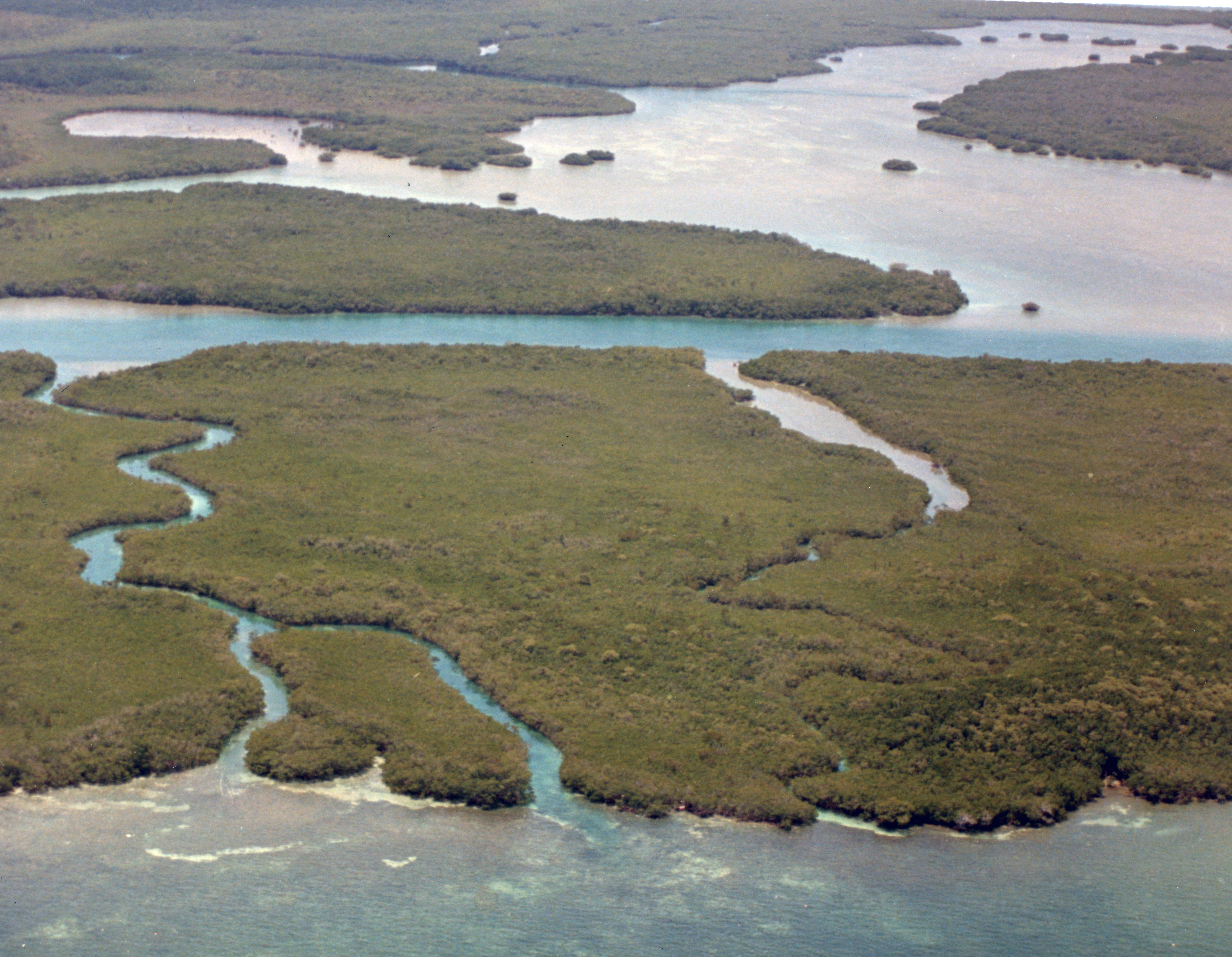 Aerial of Rubicon Key. Aerial of the Ocean Reef Club on Key Largo. Photo taken by the Federal Government on October 7, 1987. From the Wright Langley Collection.